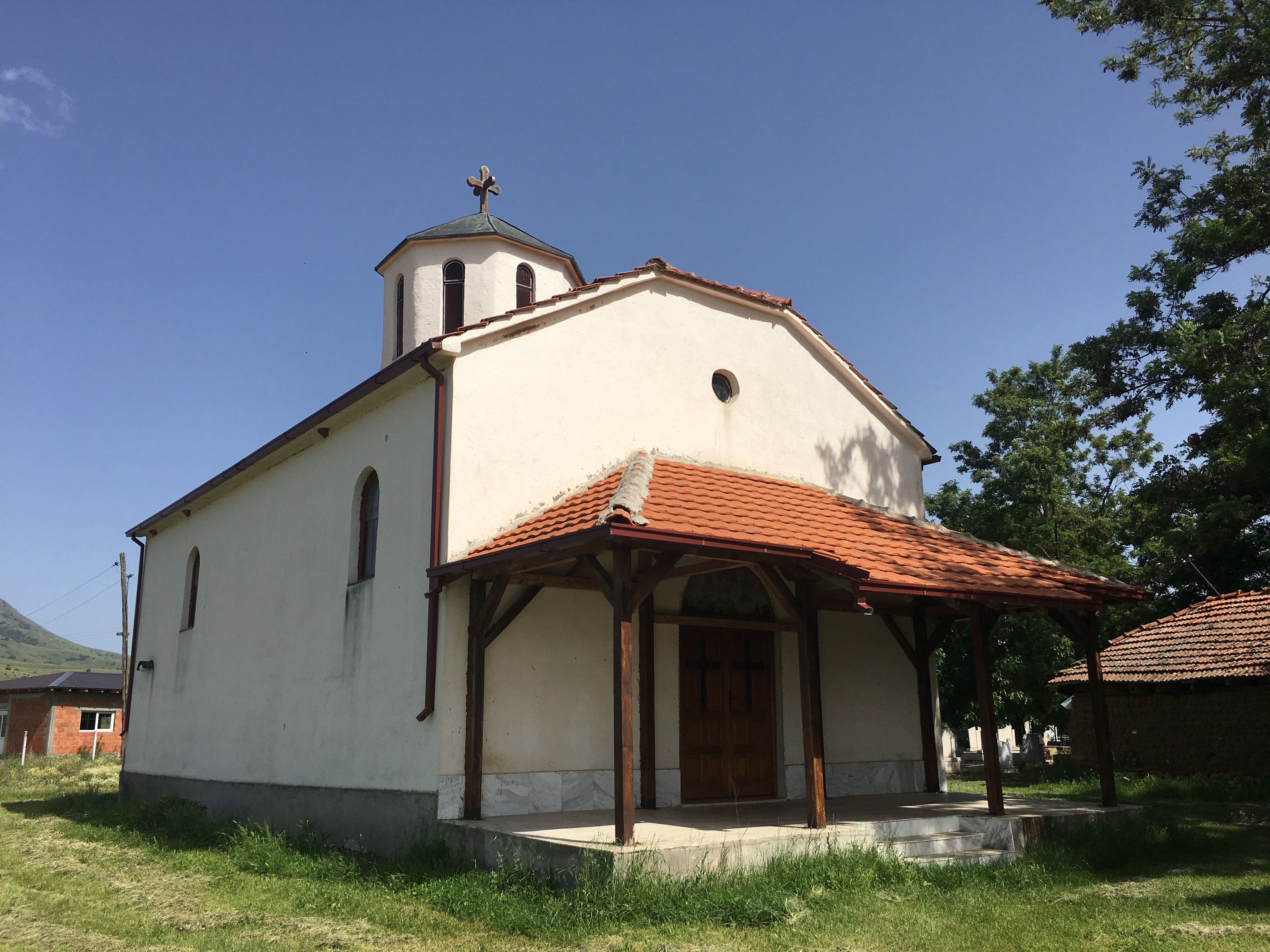 Nativity of the Theotokos Church in the village of Musinci